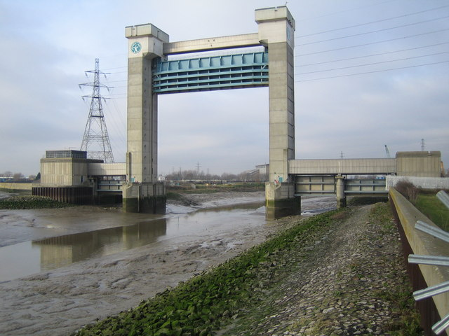 Barking Barrier This is the downstream side of the barrier, which was built over a period of four years, being completed in 1983. It is about 60 metres high, and was needed to be this size to allow shipping to reach the Town Quay in Barking further upstream. The barrier crosses the Barking Creek reach of the River Roding, at its confluence with the River Thames.